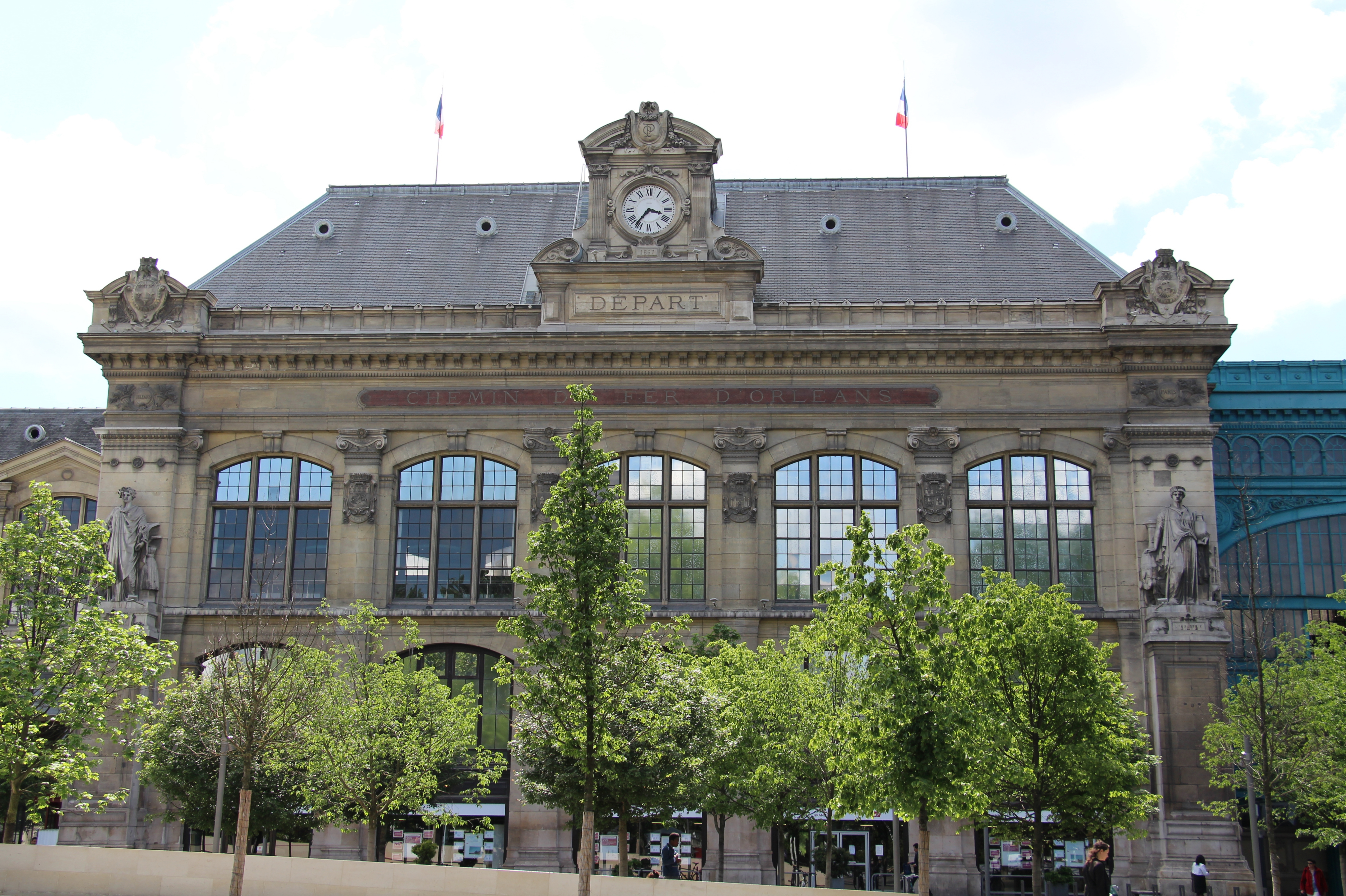 (Paris Rive Gauche) Quai d'Austerlitz Austerlitz Railway Station. The Arrivals & Departures pavilions were built in Belle Epoque style. Arch. Pierre-Louis Renaud 1862-67. The large metal hall designed by Ferdinand Mathieu.